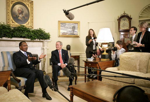 Denis Sassou-Nguesso and George W. Bush.